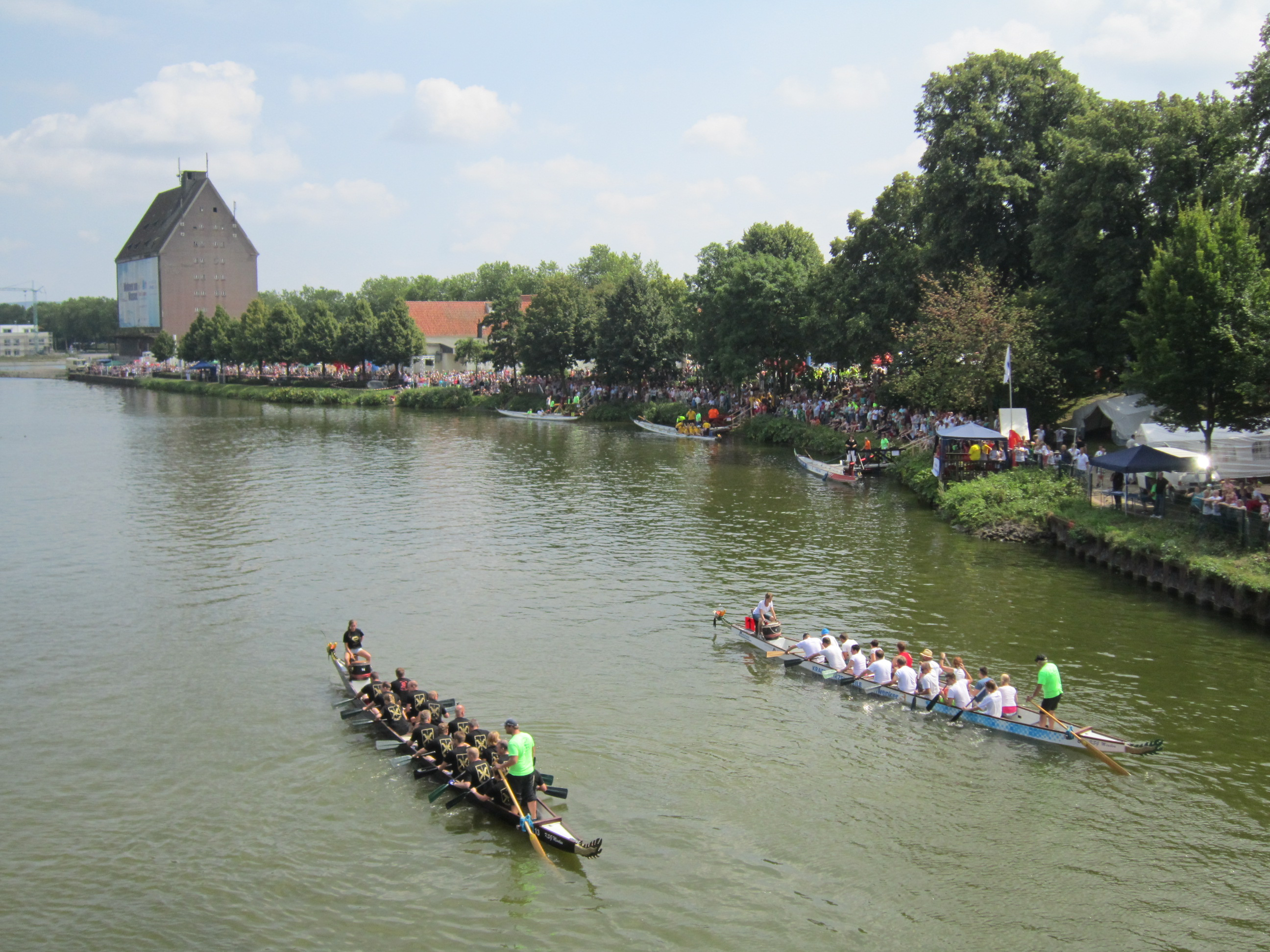 Dragon boat race on the "Mittellandkanal" during the Harbour Festival 2014 in Bad Essen